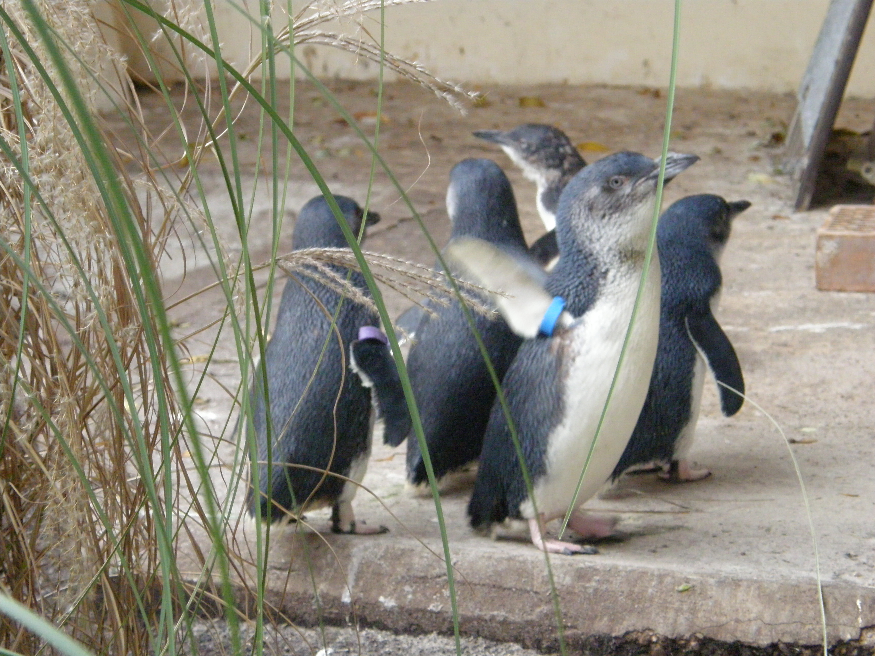 Little Penguin (Eudyptula minor) at Cologne Zoo, Germany. They are called Little Blue Penguins, or just Blue Penguins.